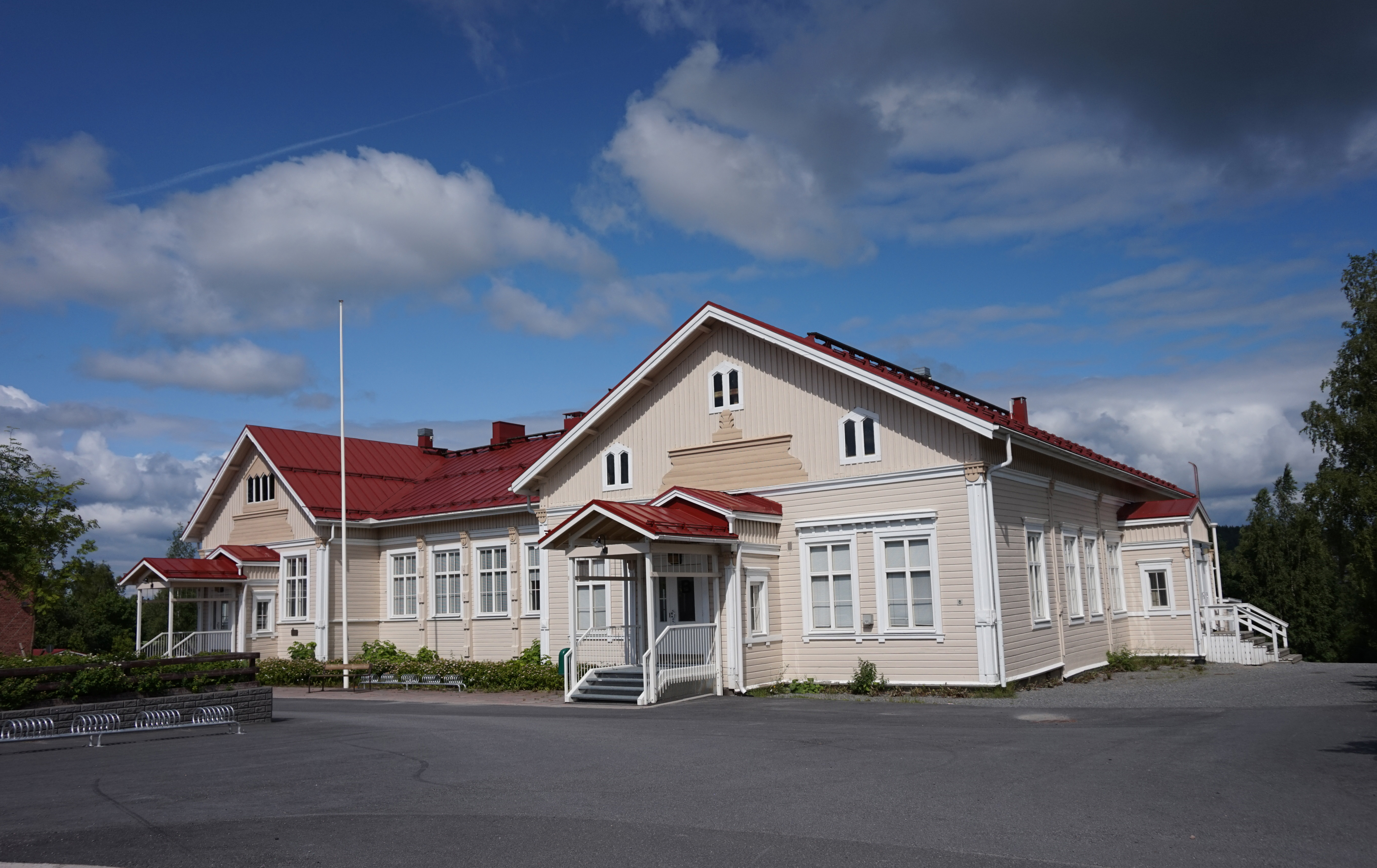 Building of the school Jokivarren koulu in Jämsä.This photograph was taken with a Sony ILCE-5000